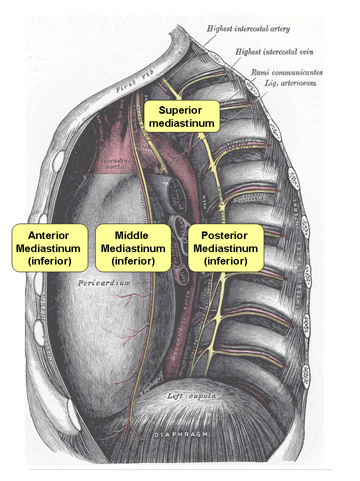 Annotated version of Gray's image 969; opened Mediastinum viewed from left body side